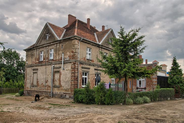 Marcinkowo Dwór Jaczyńskich